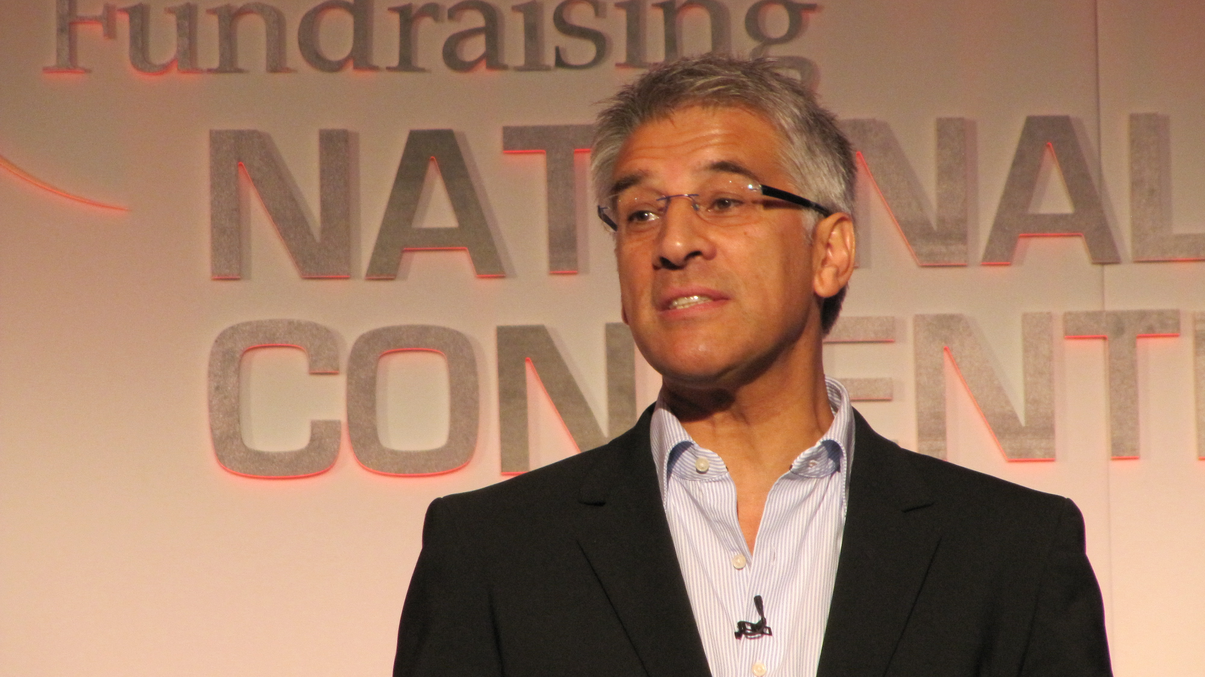 Steve Chalke at #iofnc